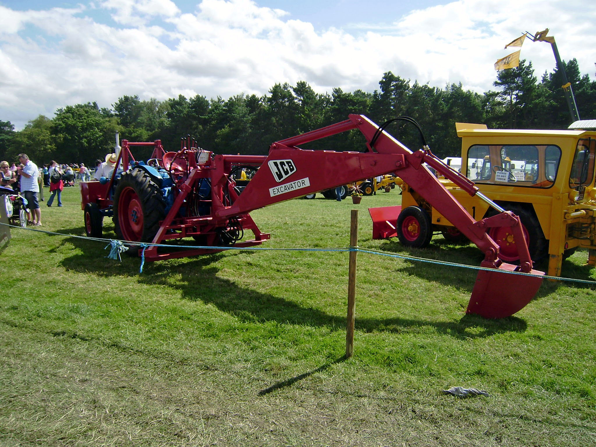 A JCB MK1 Excavator backhoe loader attachment (JCB serial number 2103, built in the 1950s) on a Fordson Major tractor (with a front counter weight) at Cromford Steam Rally 2008, Derbyshire, England